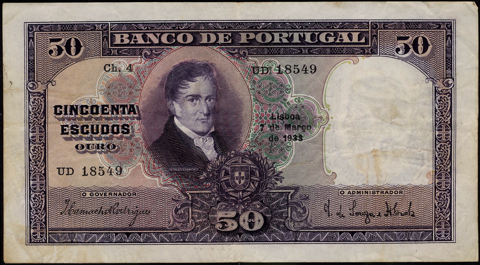 Banknotes of Portugal 50 Escudos banknote of 1933, Manuel Borges Carneiro.